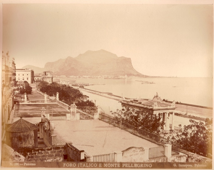 Giuseppe Incorpora (1834-1914), "Palermo - Foro italico and Mount Pellegrino". Catalogue # 131.